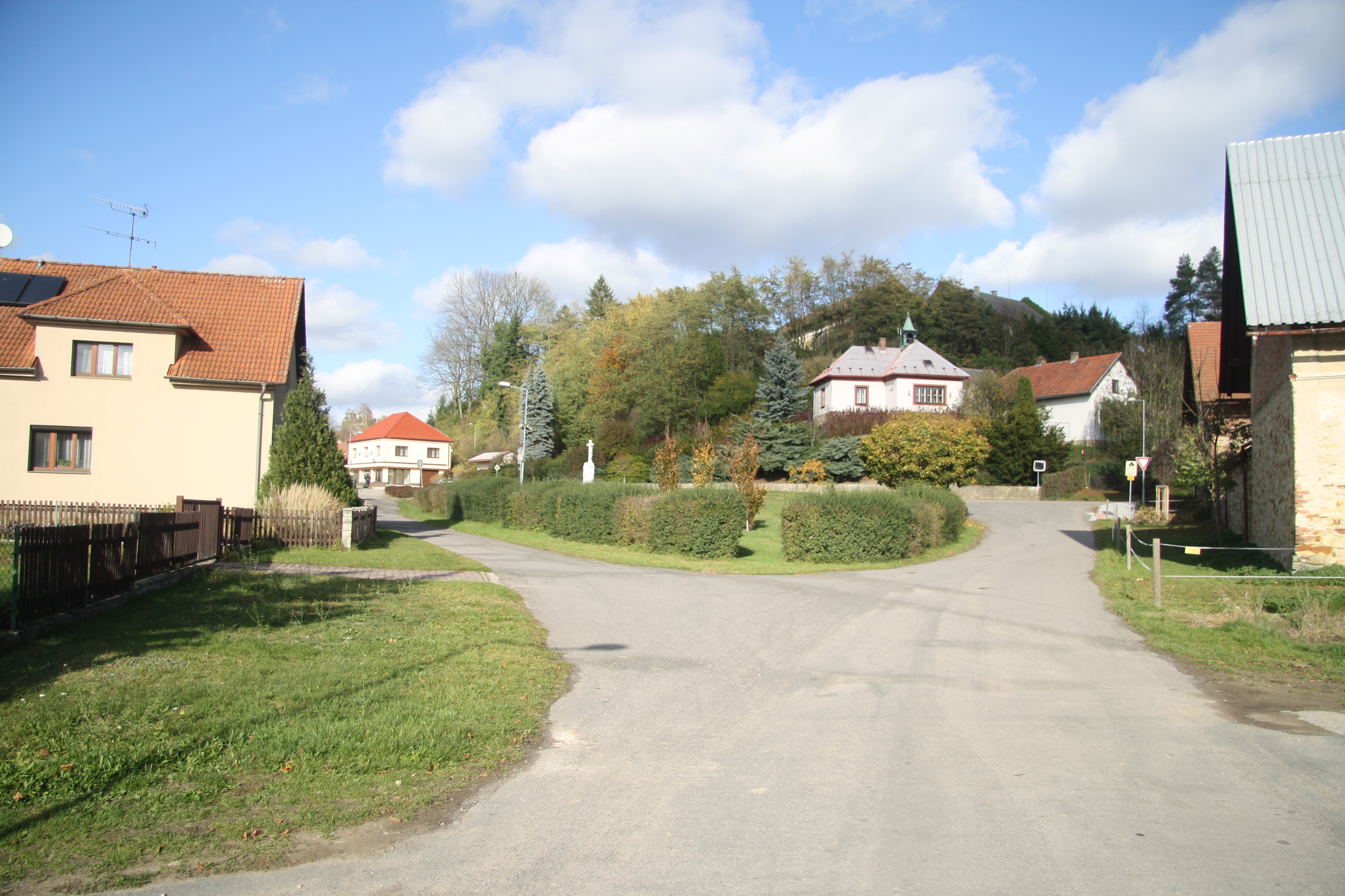 Center of Svídnice, Rychnov nad Kněžnou District